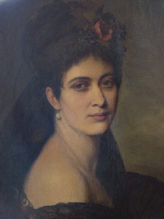 Portrait of Agnes zu Salm-Salm (1840-1912)